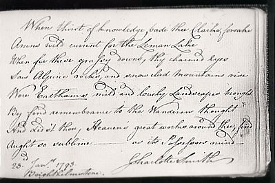 Verse by Charlotte Smith. Dated and signed by her, 23 January 1793, Brighthelmstone (now Brighton)